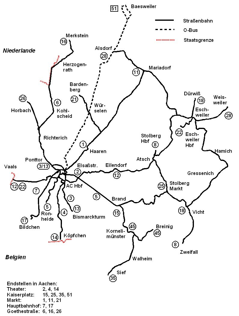 Tramway network Aachen (1950)